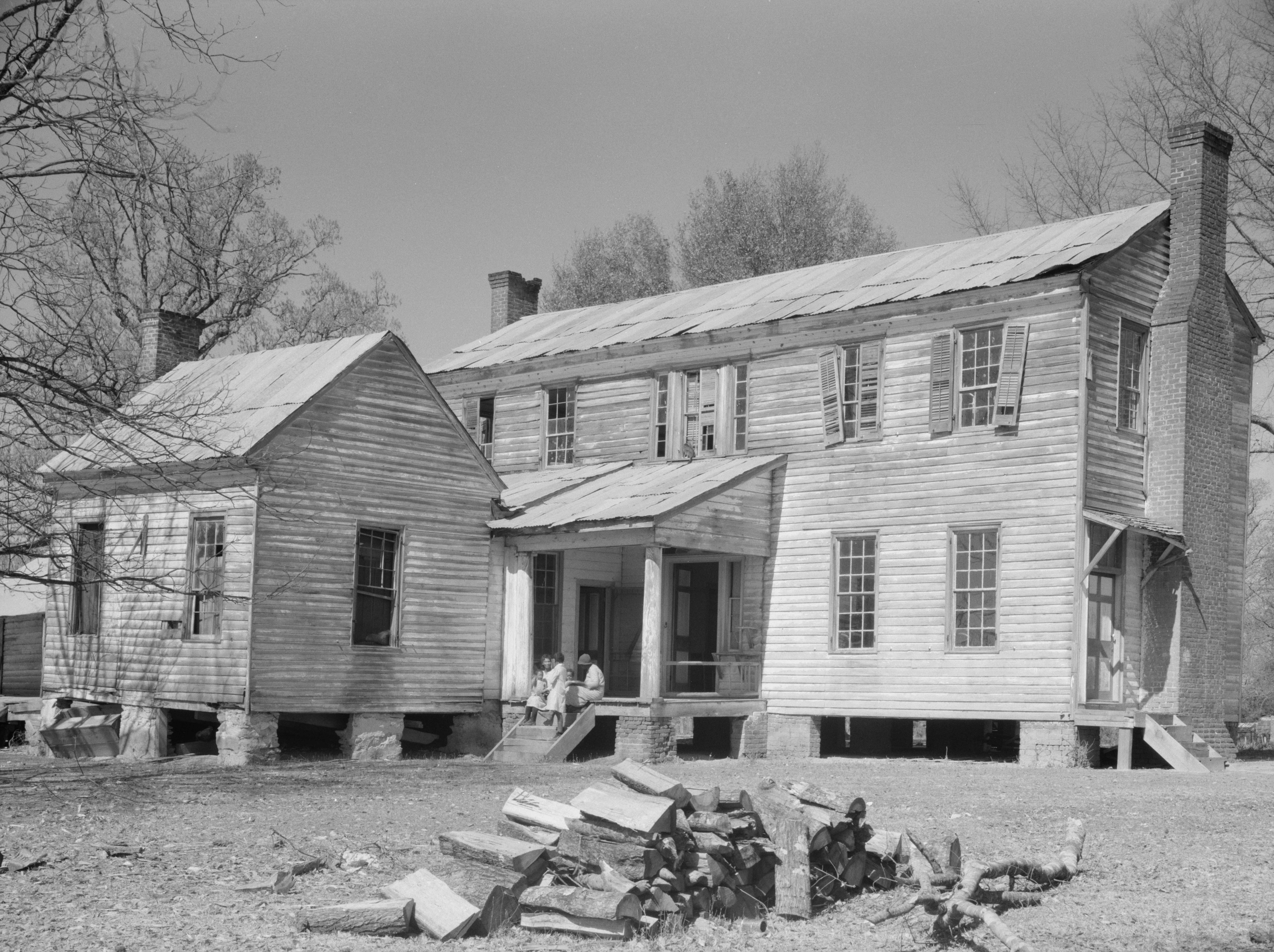 "Home of the Pettways, now inhabited by Negroes.", Gee's Bend, Alabama. View showing the rear of the house and the semi-detached kitchen ell.